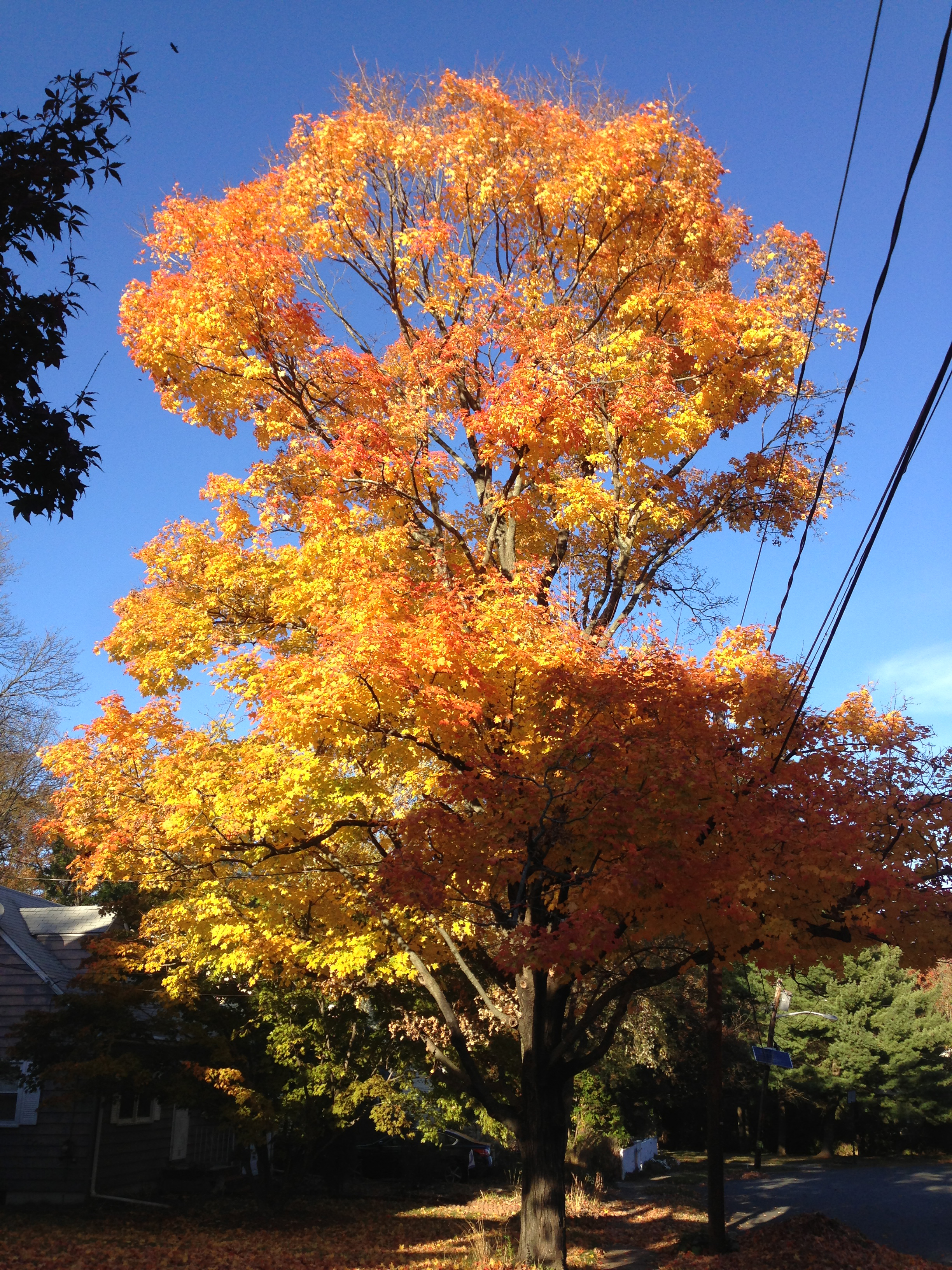 Sugar Maple during autumn along Patton Drive in Ewing, New Jersey